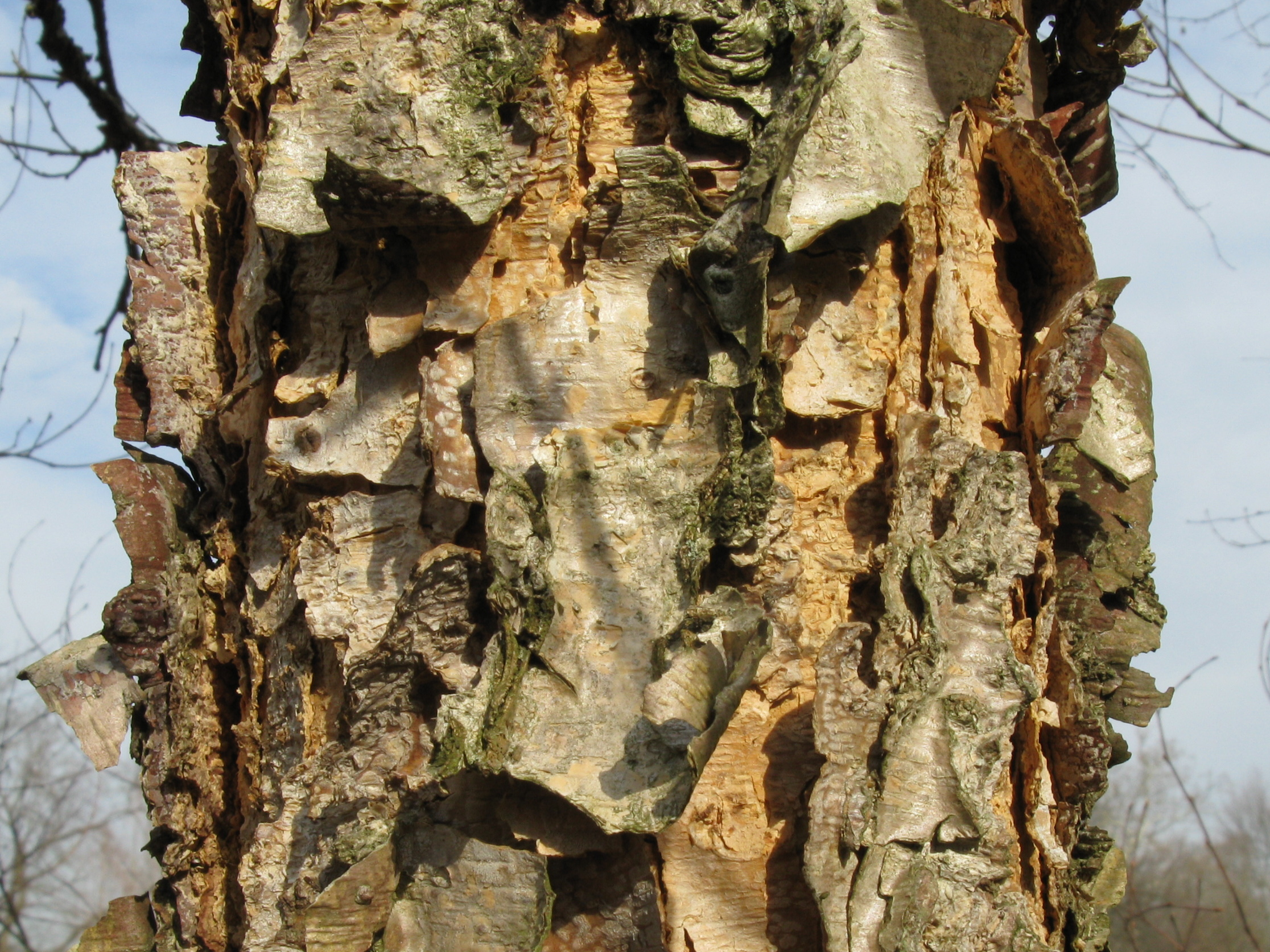 Trunk and Bark of Dahurian Birch (Betula davurica)